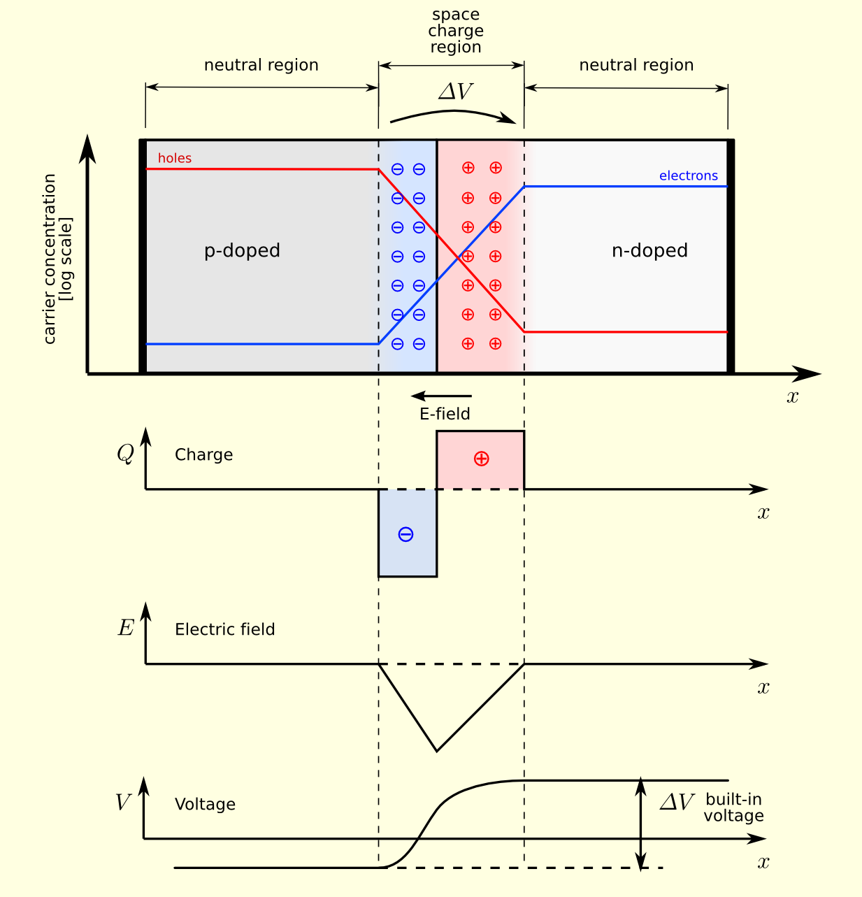 A PN junction in thermal equilibrium with zero bias voltage applied. Electron and hole concentrations are reported respectively with blue and red lines. Gray regions are charge neutral. Light red zone is positively charged. Light blue zone is negatively charged. Under the junction, plots for the charge density, the electric field and the voltage are reported. Note that the image depicts the red depletion region in the N-doped material going deeper (with a greater area) than the blue depletion region in the P-doped material, which is explained by a higher N-doped density.